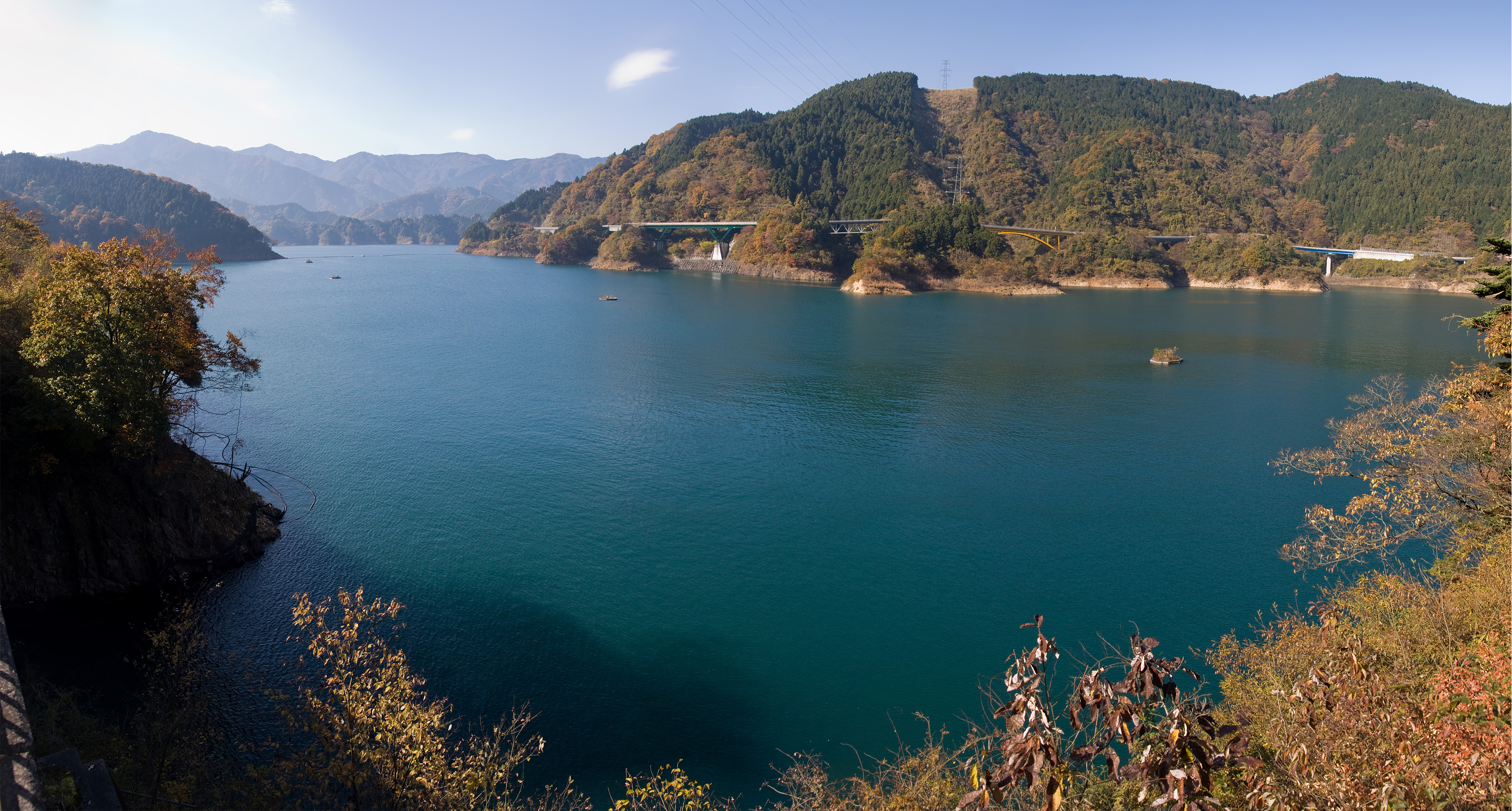 Lake Miyagase (宮ヶ瀬湖 Miyagase-ko), Kanagawa prefecture, Japan.